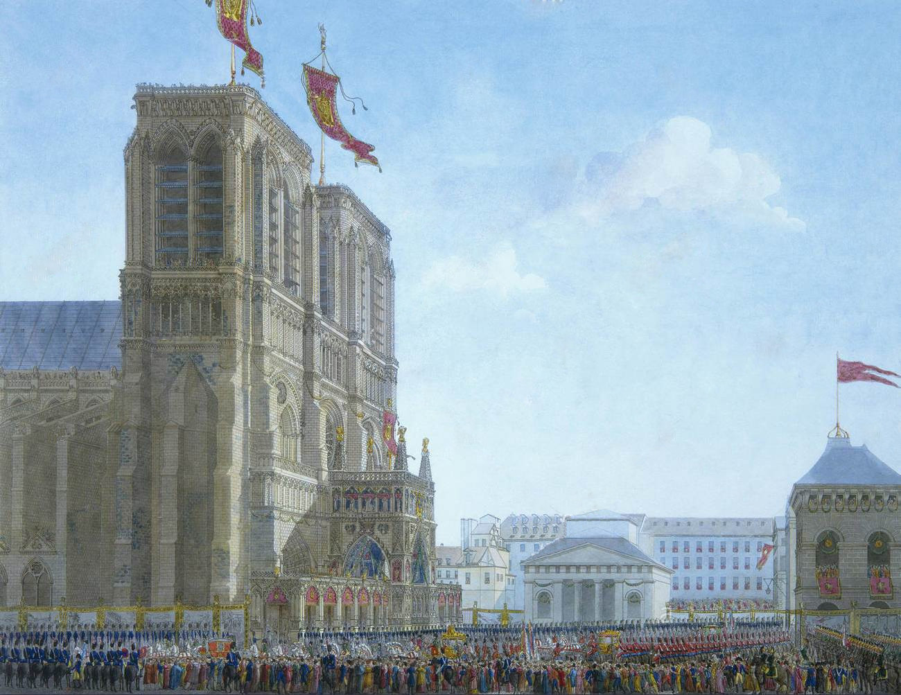 Arrival of Napoleon Bonaparte at Notre-Dame Cathedral in Paris for his coronation.